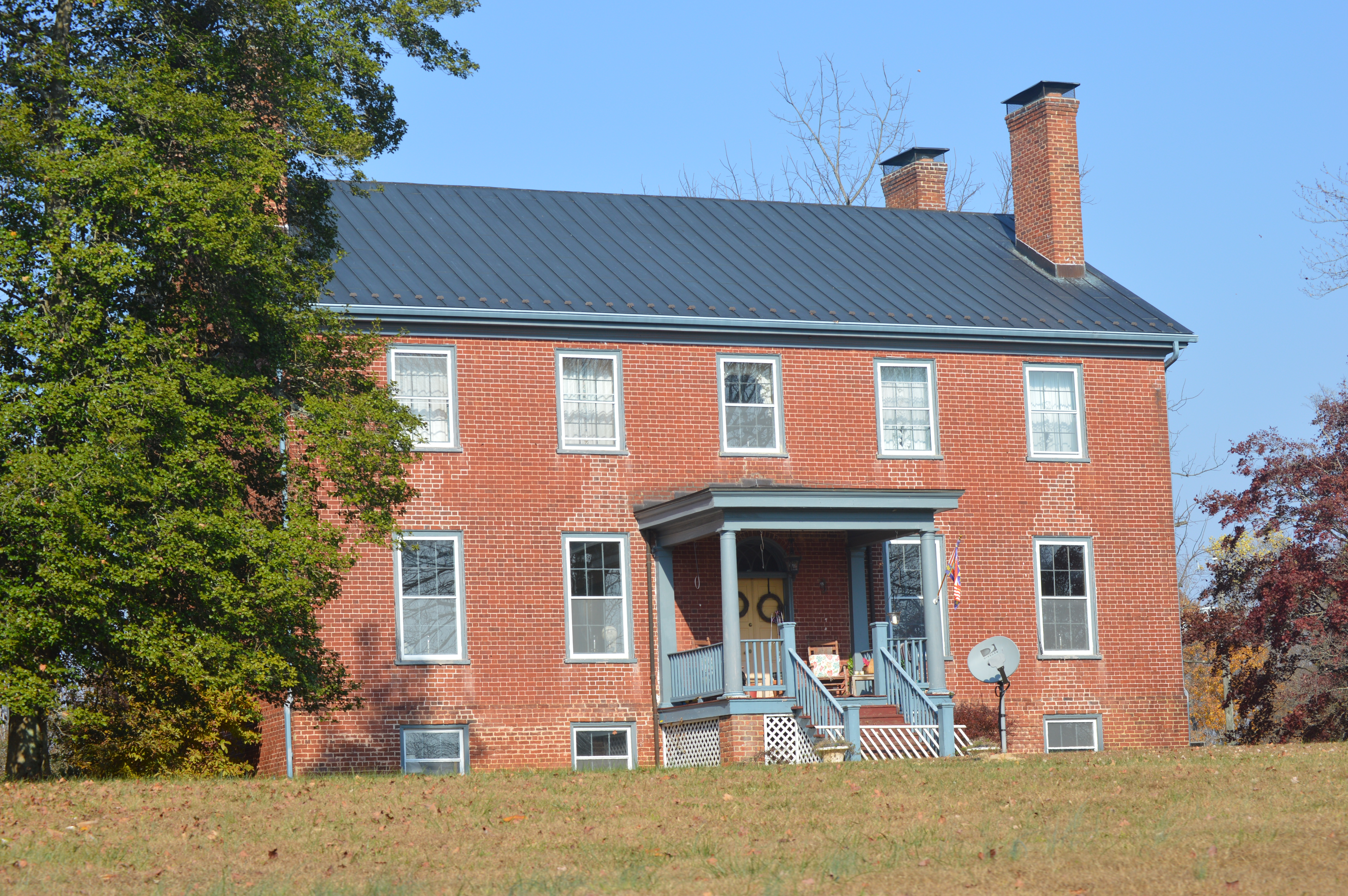 Front of Woodfork, located at 3704 Woodfork Road southwest of Cullen in Charlotte County, Virginia, United States. Built in 1829, it is listed on the National Register of Historic Places.